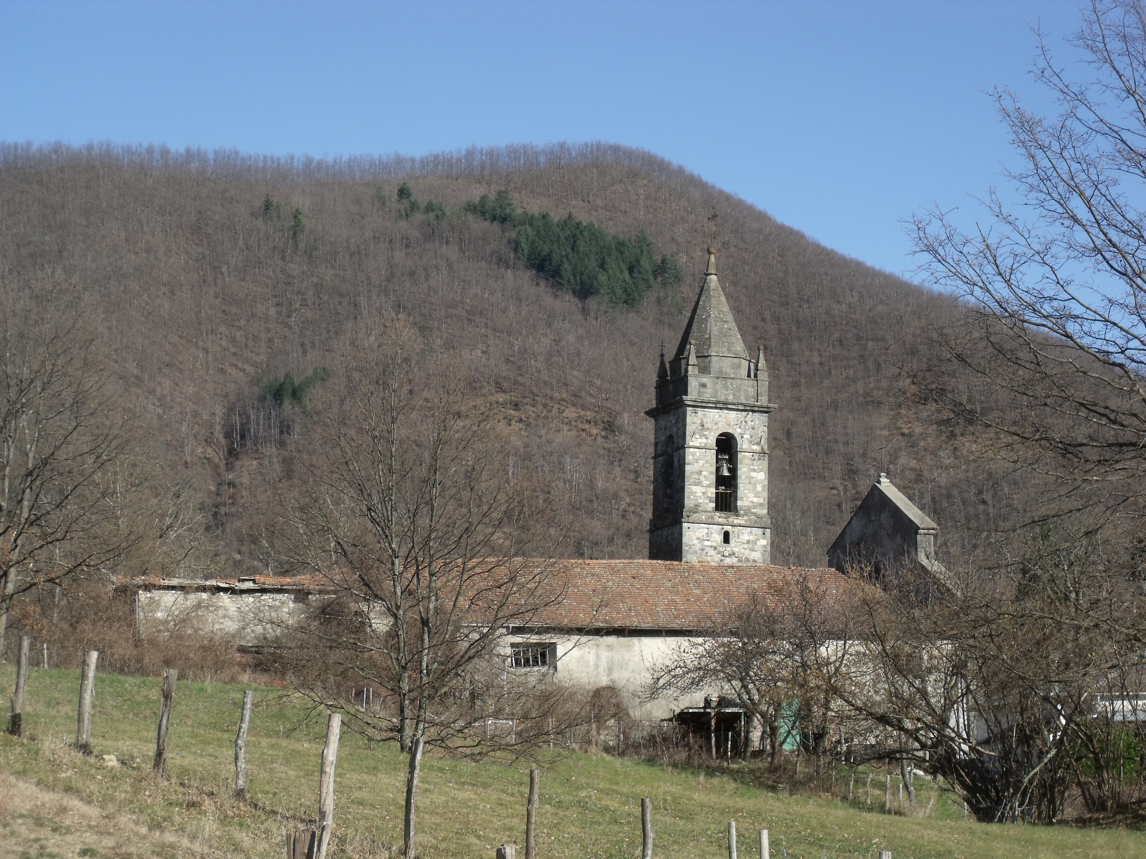 Church of San Lorenzo near Patigno, Comune of Zeri, Lunigiana, Province of Massa-Carrara, Tuscany, Italy